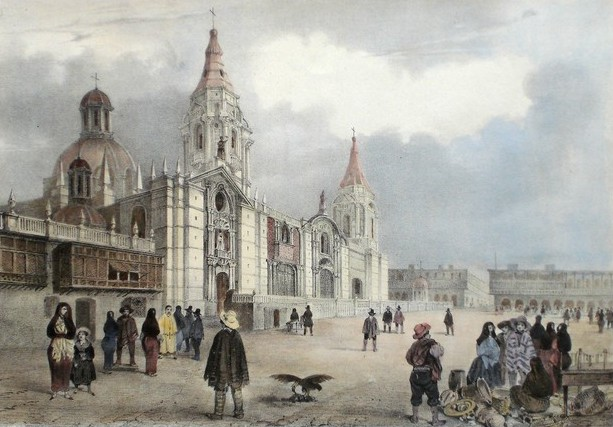 Lima Cathedral (1846)